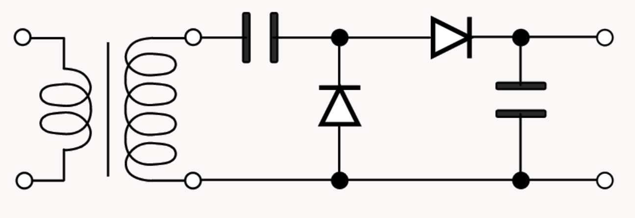 Greinacher circuit